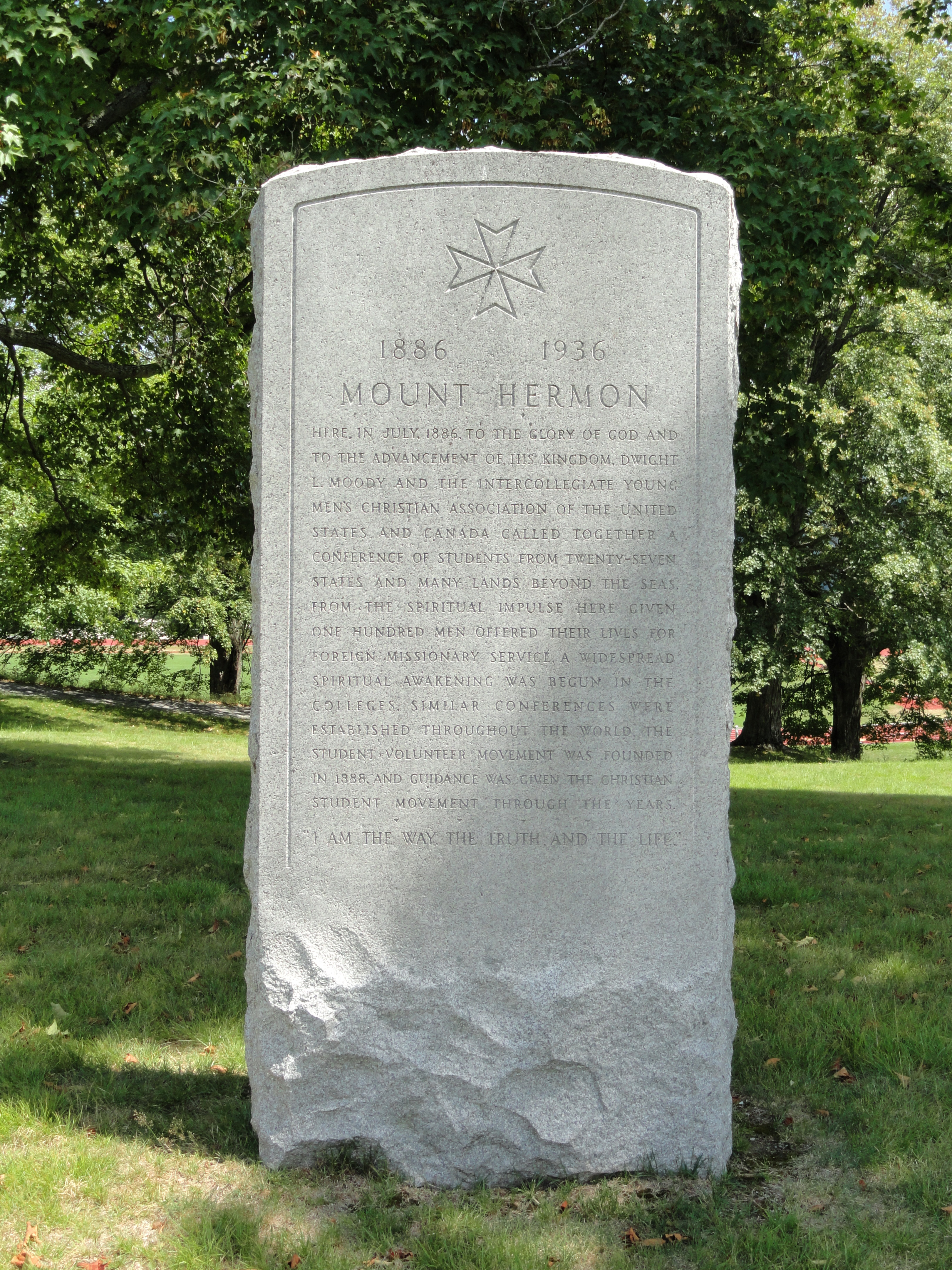 Mount Hermon Conference memorial, Northfield Mount Hermon School, Mount Hermon, Massachusetts, USA.